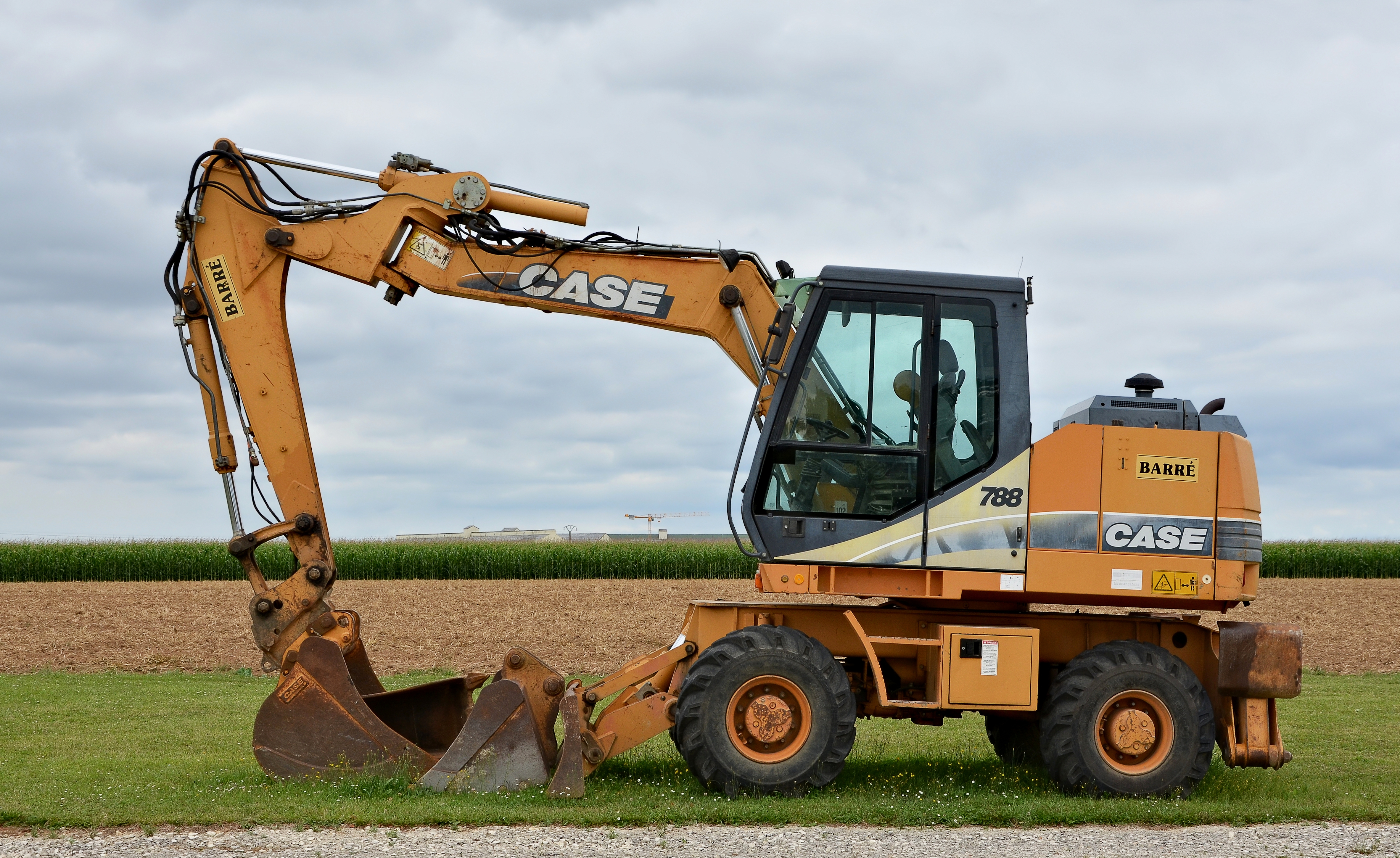 Case 788 wheeled 360 degrees digger, Saint-Macoux, Vienne, France.